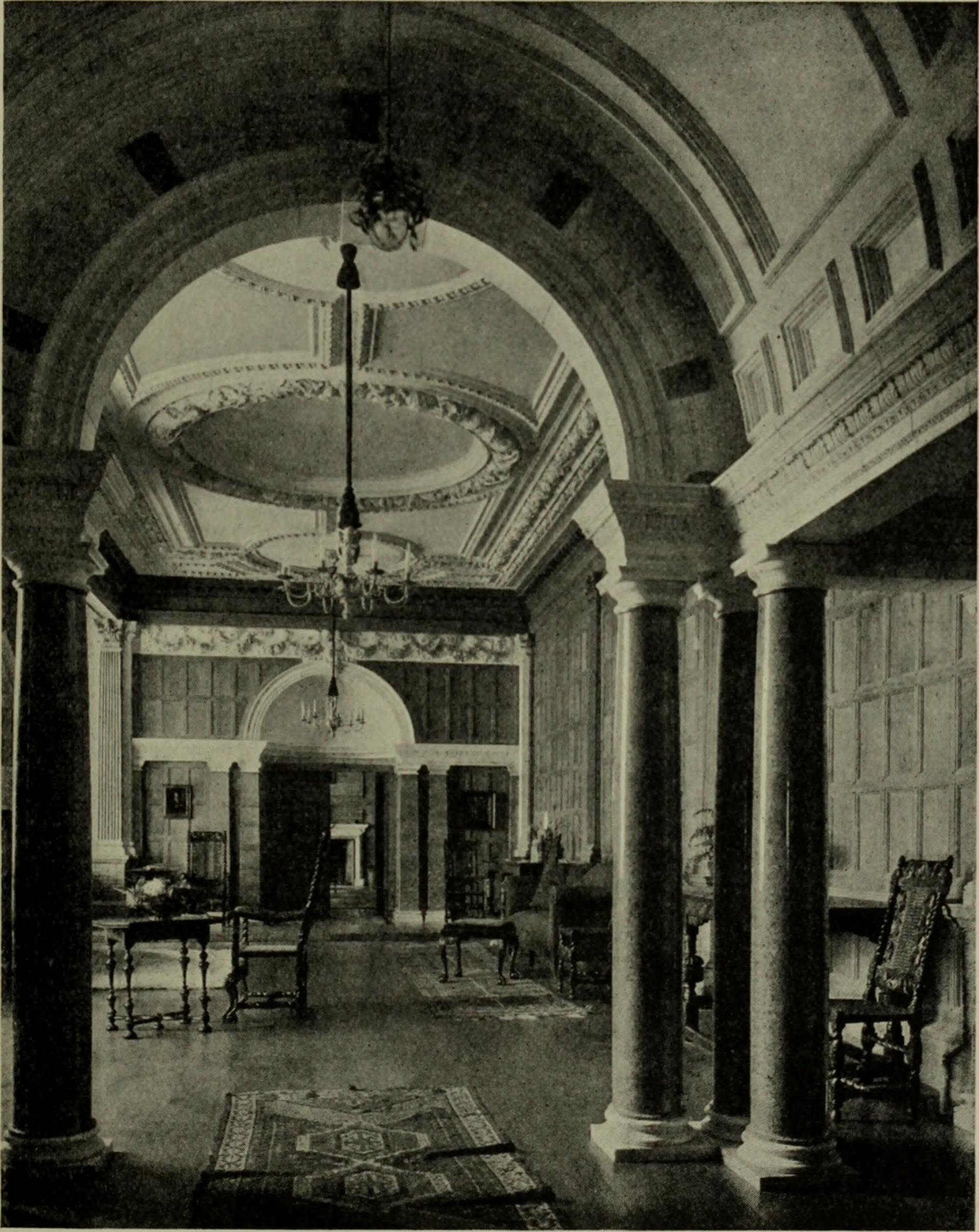 Title: Lutyens houses and gardens Year: 1921 (1920s) Authors: Weaver, Lawrence, 1876-1930 Subjects: Lutyens, Edwin Landseer, Sir, 1869-1944 Architecture, Domestic Gardens Publisher: London, Offices of "Country life", ltd. (etc.) New York, C. Scribner's Sons Text Appearing Before Image: 45.—Stone Sundiai with Lead Inlay. by a balustraded wall, makes a retreat rich in architecturalfancy, and beyond it is a walk where pergola and pools makeup an enchanting picture (Fig. 44). The garden is full ofgracious furnishings like the sundial seen in Fig. 45. Fromwhatever point of view the building is seen, the tallchimneys of moulded brick group in romantic fashionwith bold bays, broad overhanging eaves and greatstretches of mullioned windows. Marshcourt 67 The planning of the house owes nothing to Tudor models,but is frankly modern. Entering through the porch thevisitor finds a long vestibule, at the right-hand end of whichis the main staircase. To the left are openings to the.big hall(Fig. 46). The staircase is an echo of Elizabethan influences,built massively of oak with simple detail in baluster andpanel (Fig. 47). In the hall there is a burst of richnesssuch as we associate with late Jacobean work. Marshcourt Text Appearing After Image: 46.—Marshcourt : The Hall and its Screen. 68 Marshcourt dates from a time when Sir Edwin was giving a more closeattention to details of craftsmanship than is demanded byhis later work in a more austere manner. The ,rich, perhapsit is fair to say heavy, plaster-work of the hall ceiling (Fig.46) shows a vigorous sense not only of decorative values,but of the contrasting play of various textures. Grey Walls is a small, albeit dignified, holiday home